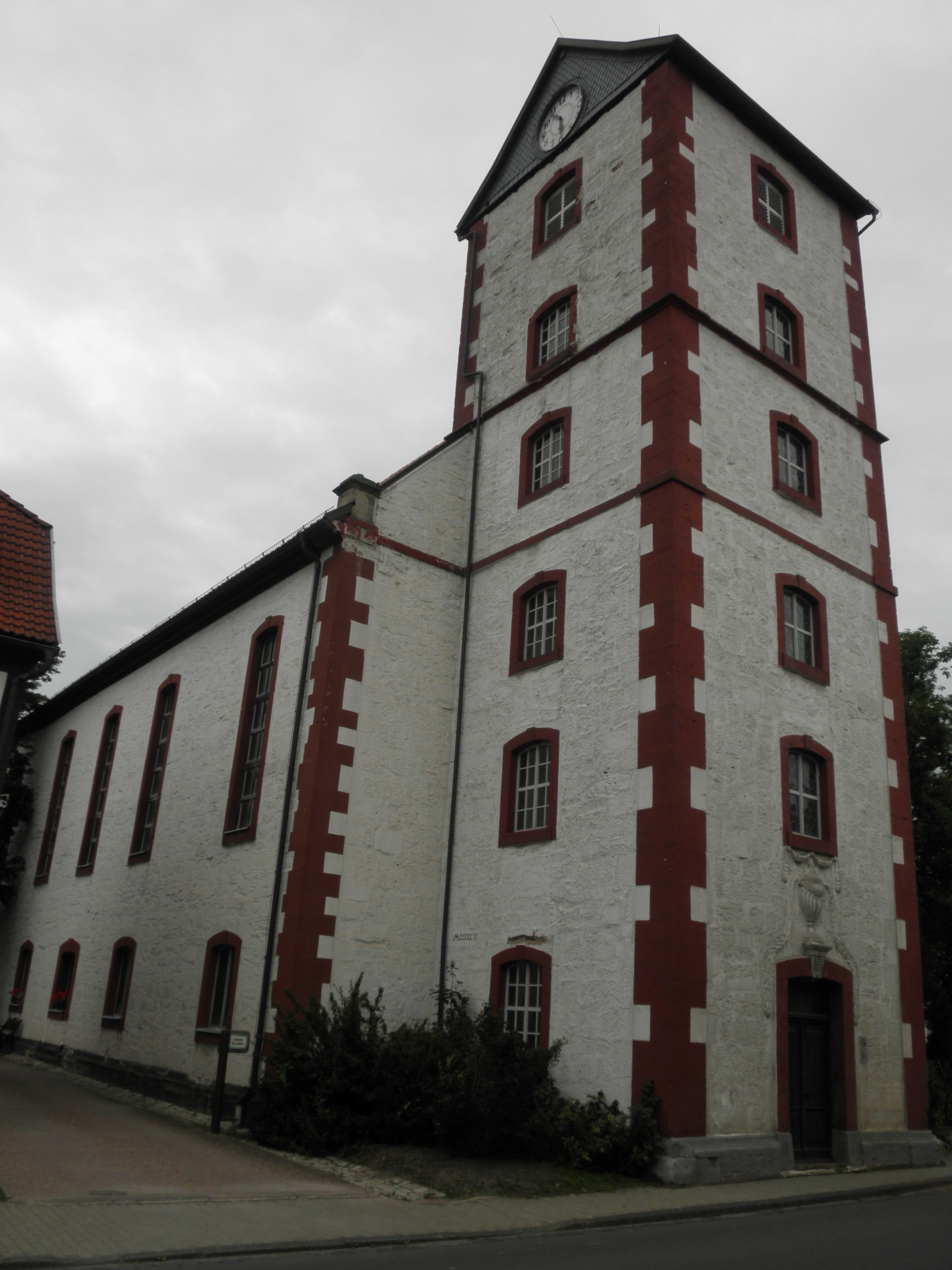 Church in Schwarza (Thüringer Wald) in Thuringia